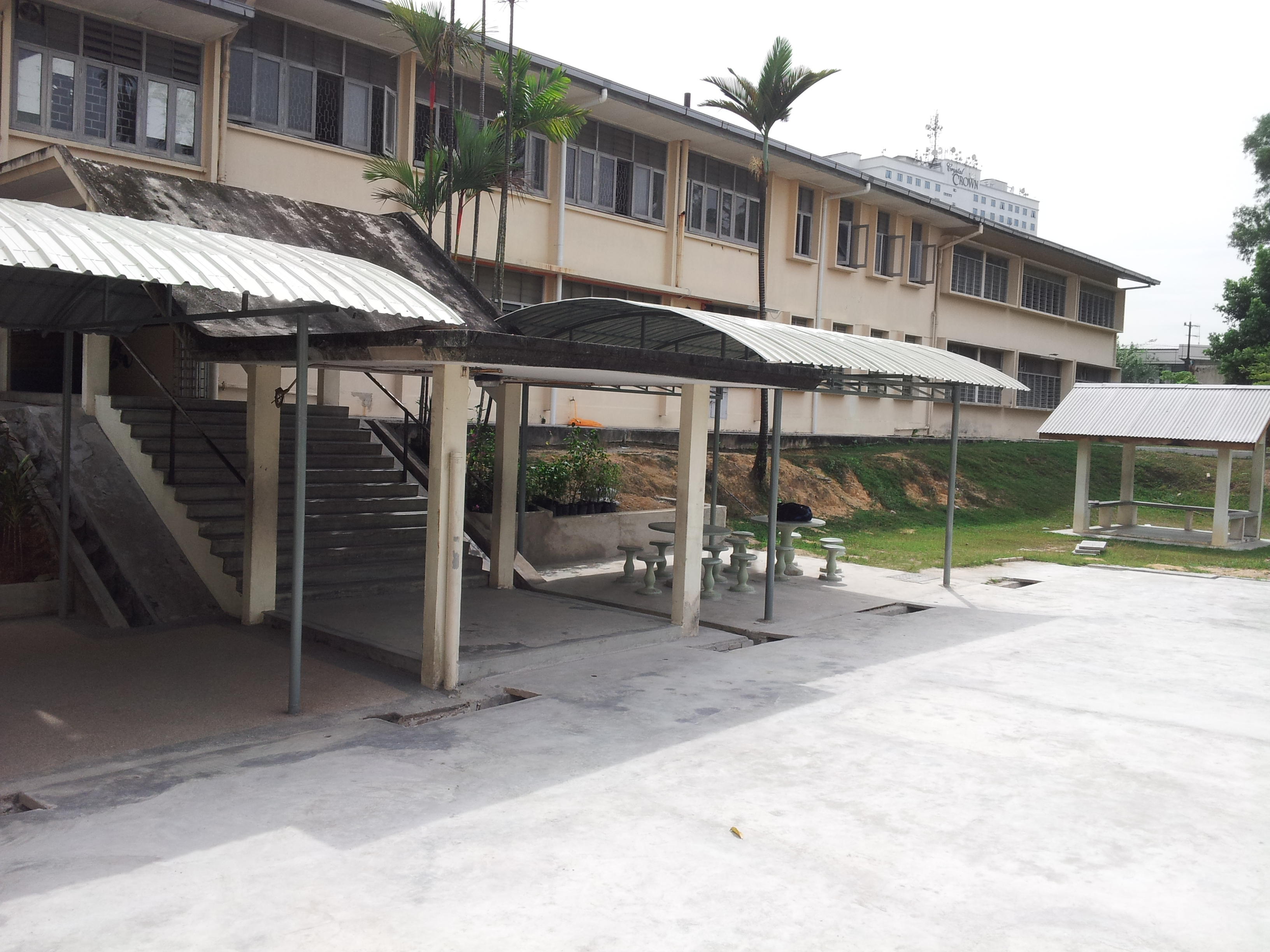 Tree Stump Area 4 - After 2013 upgrading works